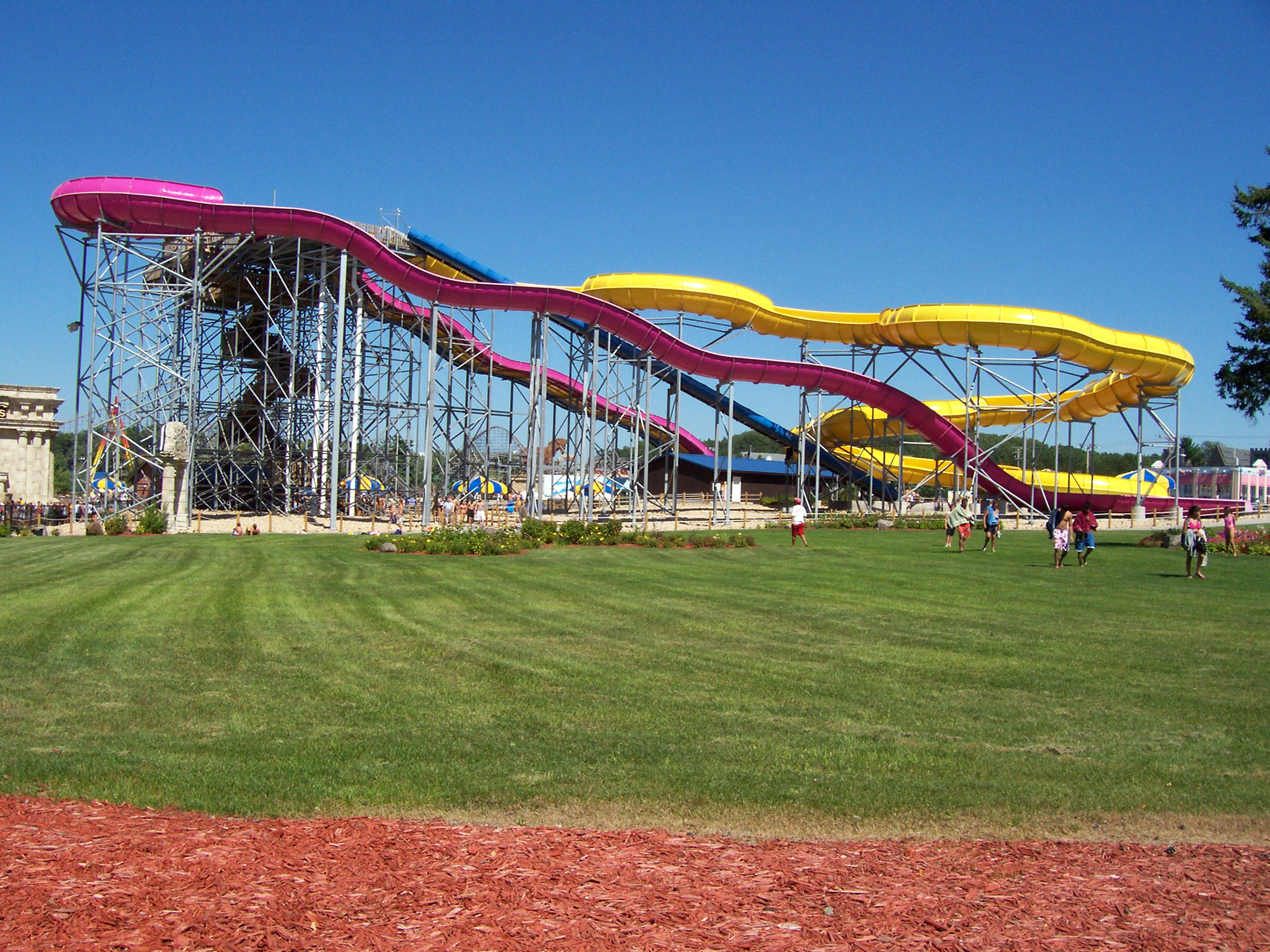 The Triton water slide at Mt. Olympus Water & Theme Park in Wisconsin Dells, Wisconsin, USA. Taken September 2, 2007 by myself.